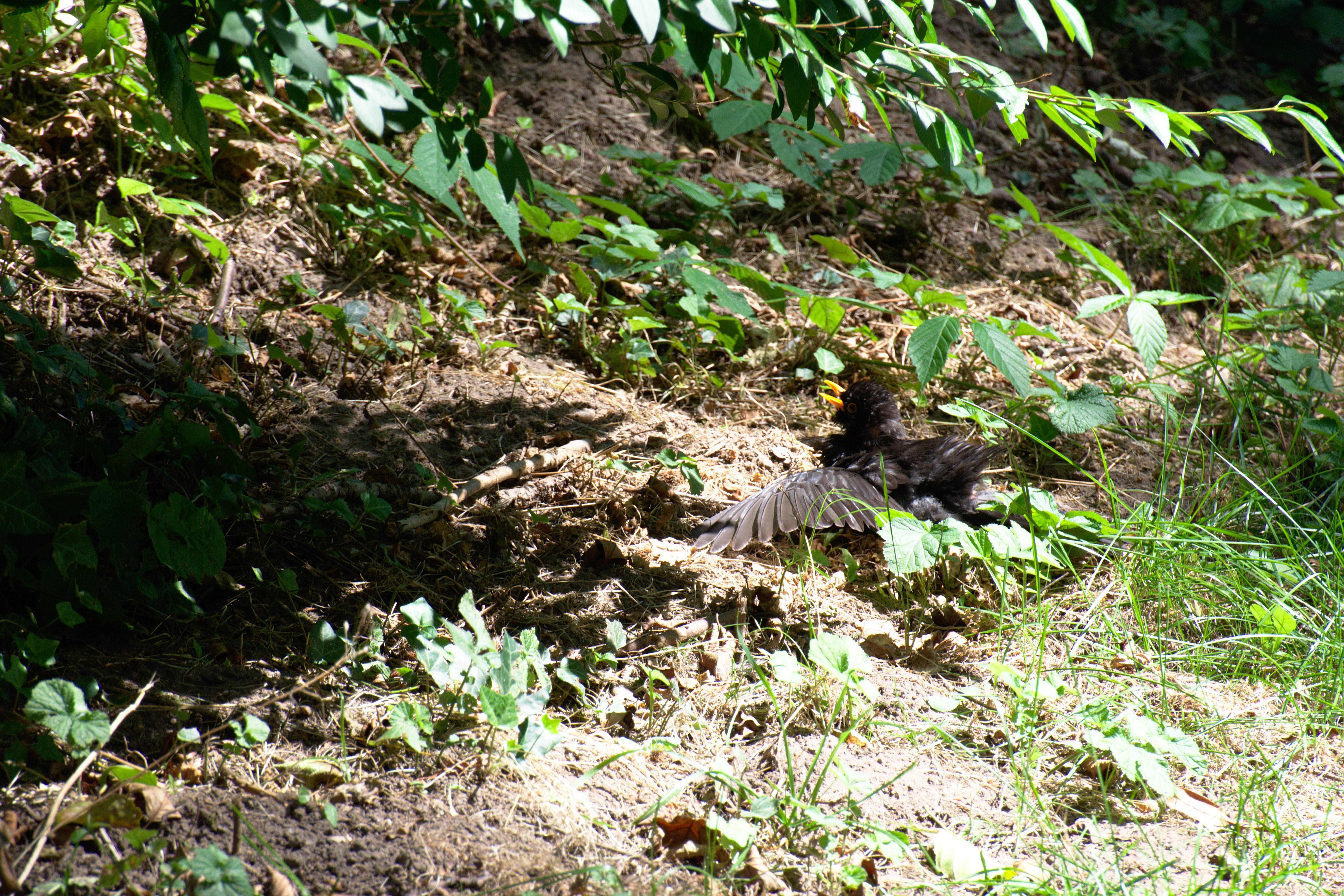 Common blackbird (Turdus merula) is anting on a hot summer's day in the Deutsch-Französischer Garten, Saarbrücken.